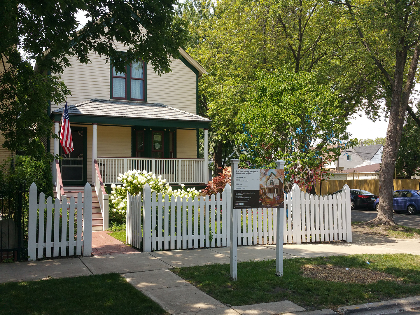 The Walt Disney Birthplace is a home in Hermosa, a neighborhood of Chicago, IL, at 2156 N. Tripp Avenue. The 1,200 square foot "worker cottage" was designed and built in 1893 by Walt's parents, Elias and Flora Disney. Walt, his older brother and lifelong business partner Roy, and their younger sister Ruth were all born in the home.